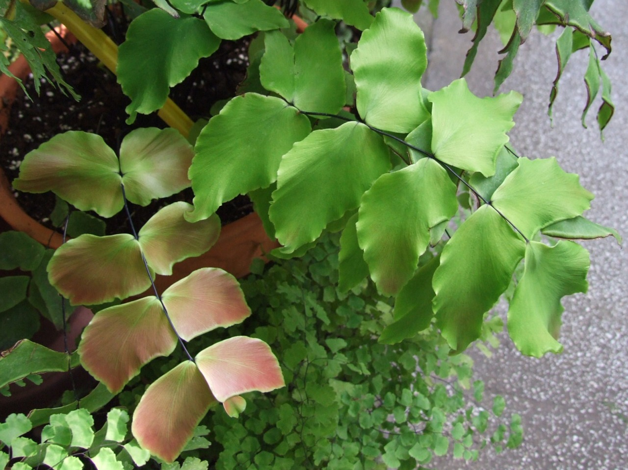 Adiantum macrophyllum